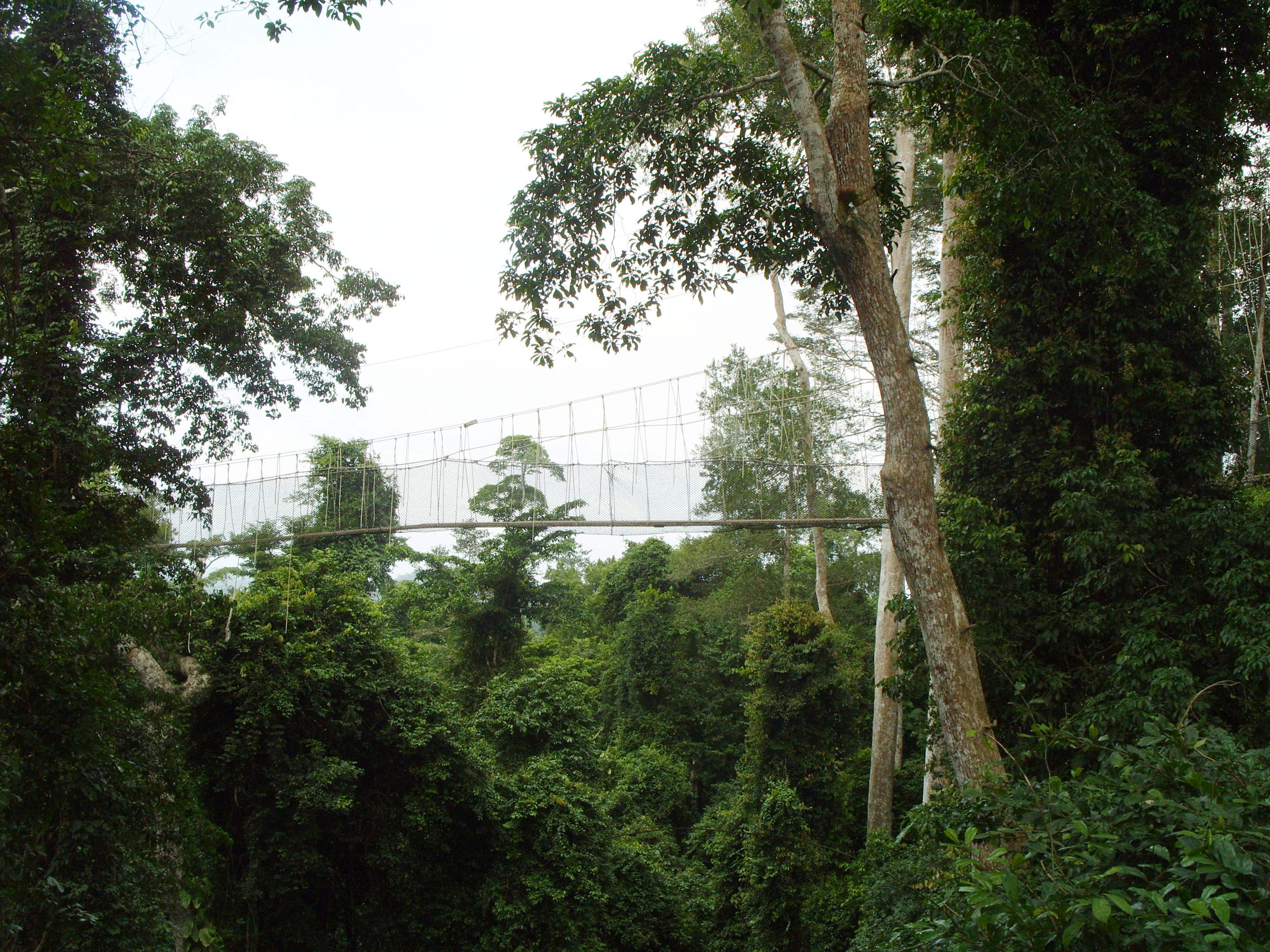 The Kakum National Park is situated 30 km from Cape Coast in Ghana. In the rain forest the canopy walkway runs 40 m above ground fixed to the trees. It is 330 m long and it is made from 7 bridges.